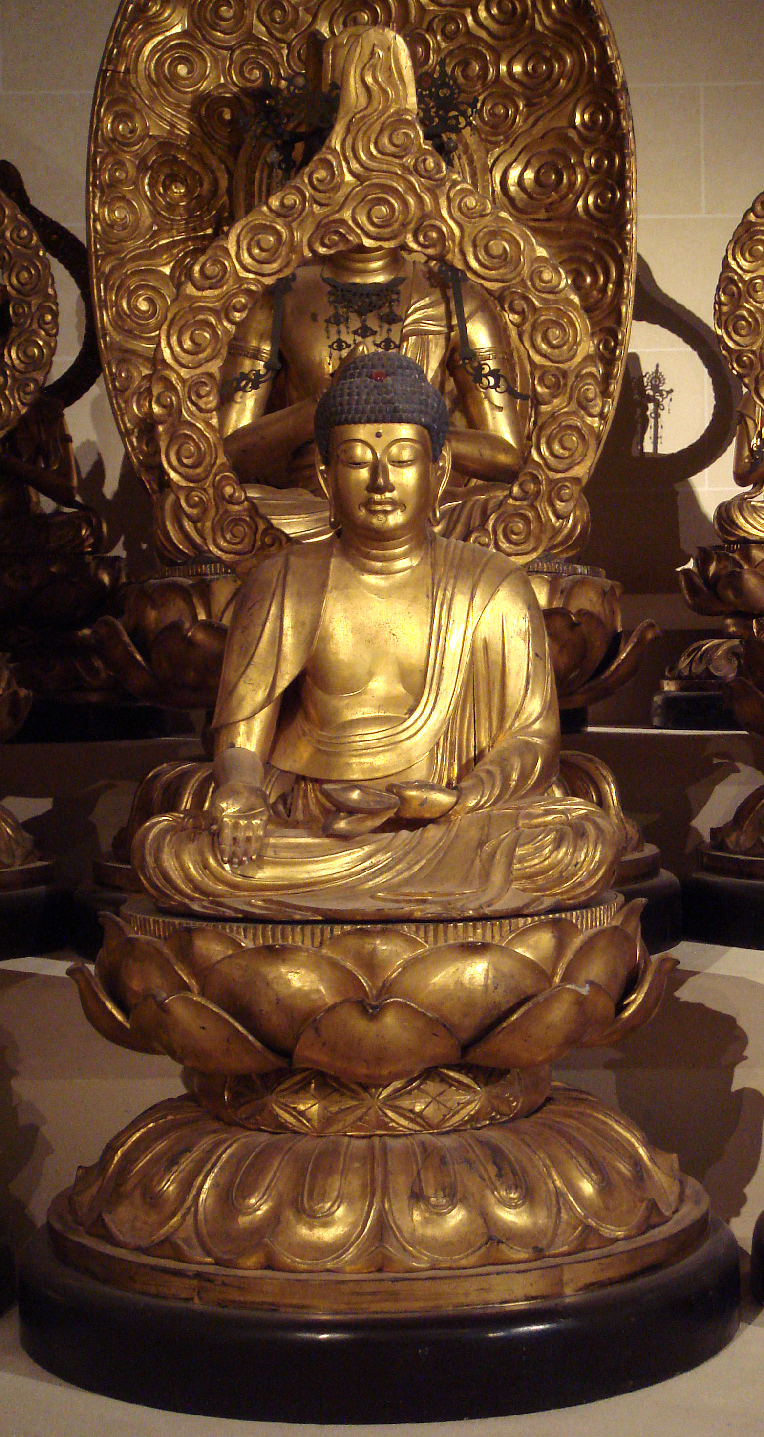 Houshou Buddha